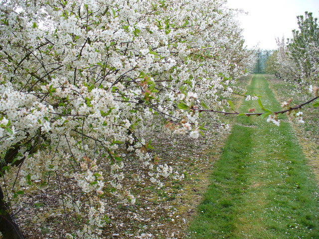 Spring at Brogdale Apple, cherry and quince blossom are colourful and prolific at the National Fruit Centre in April.